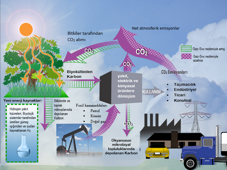 Turkish Translation of Genomics GTL Program Payoffs by US federal government